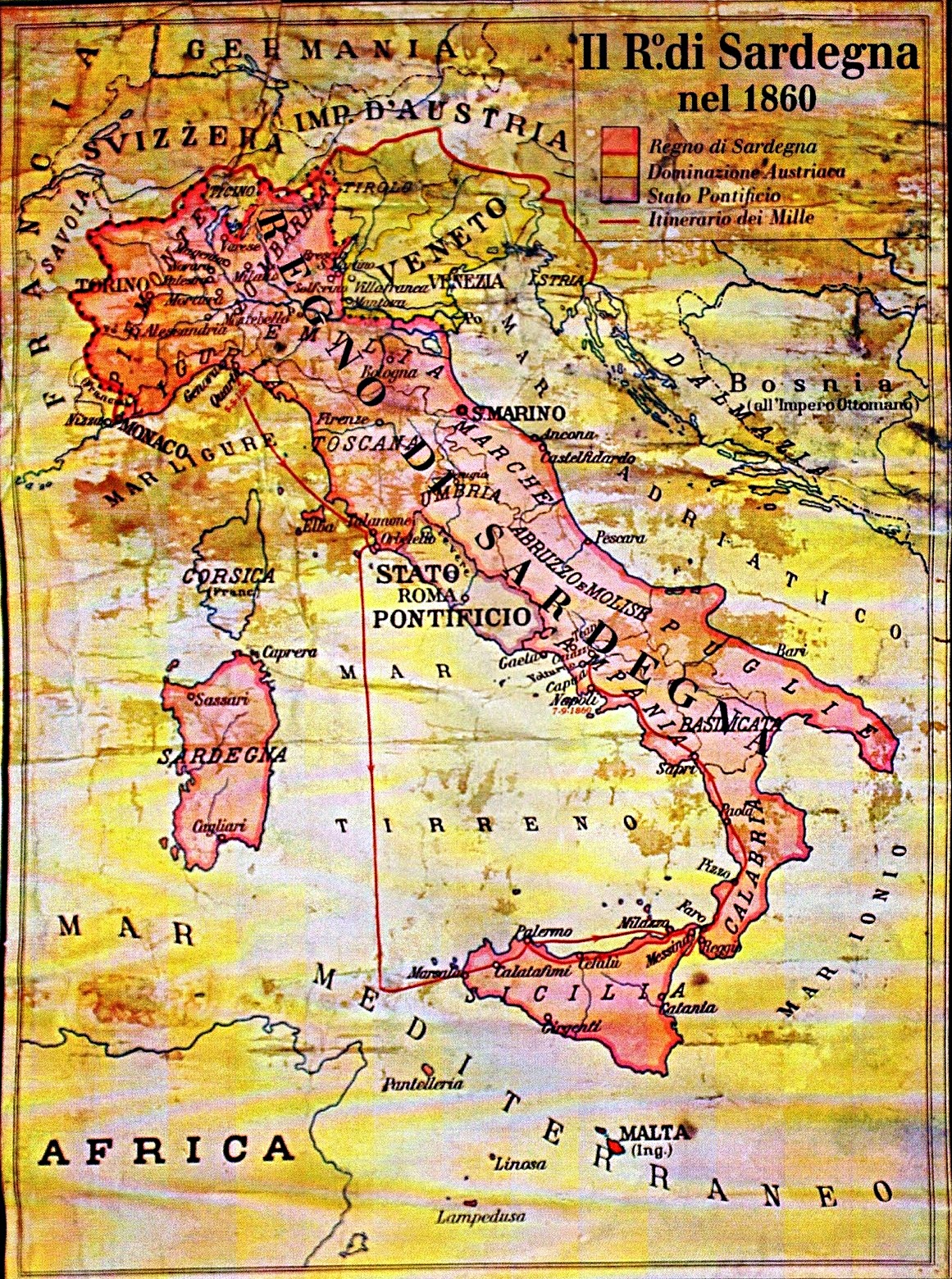 Kingdom of Sardinia in 1860, just before Italian unification in 1861